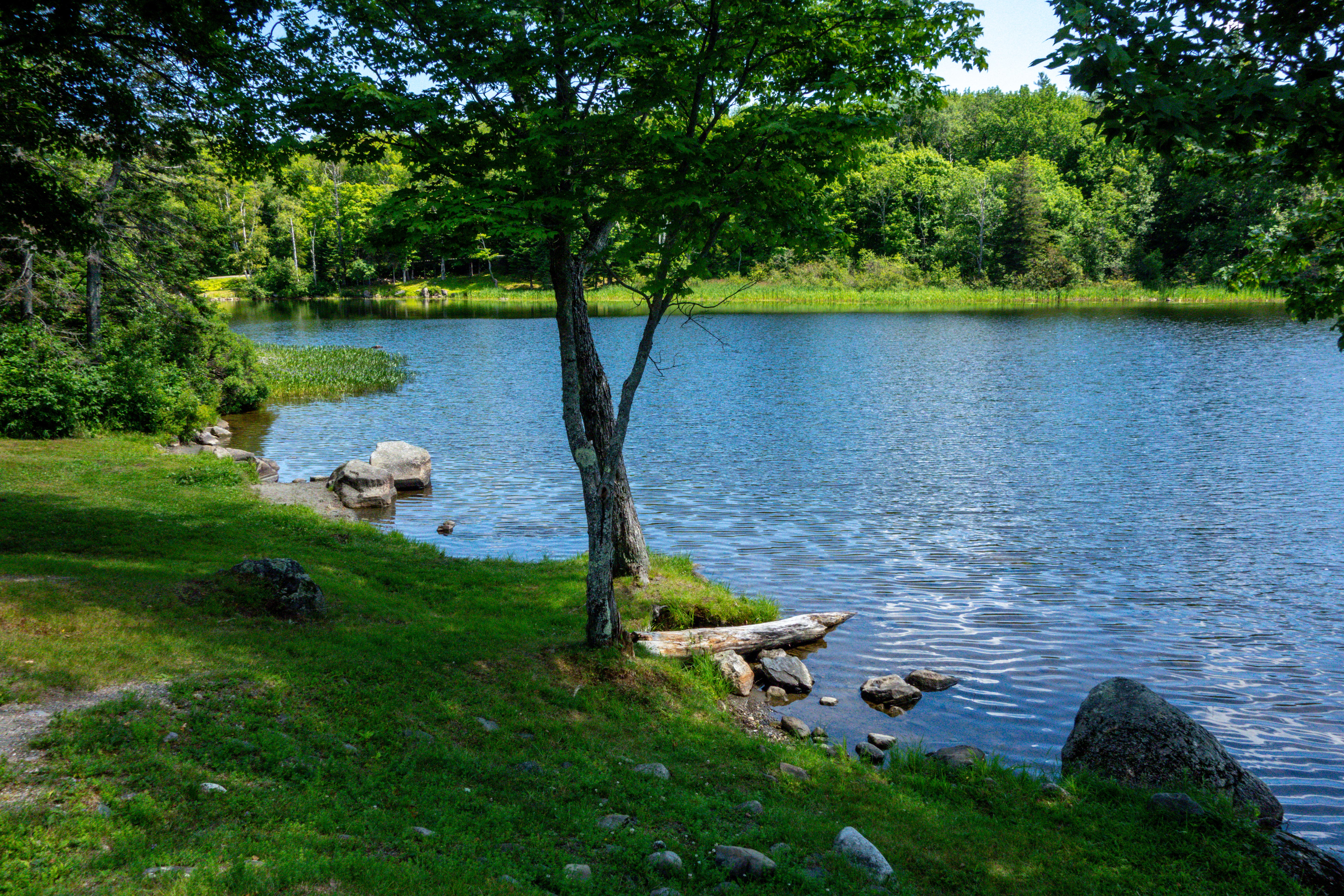 The tranquil Kingsbury Pond, central Maine.